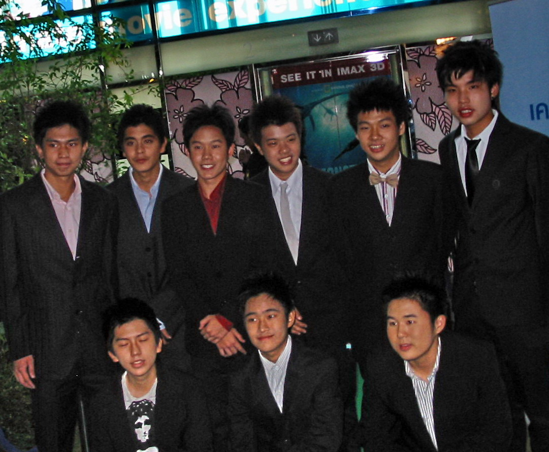 August Band at Star Entertainment Awards 2007